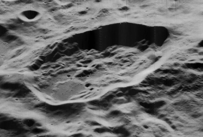 Oblique view of Mariotte, on the far side of the moon, facing west.